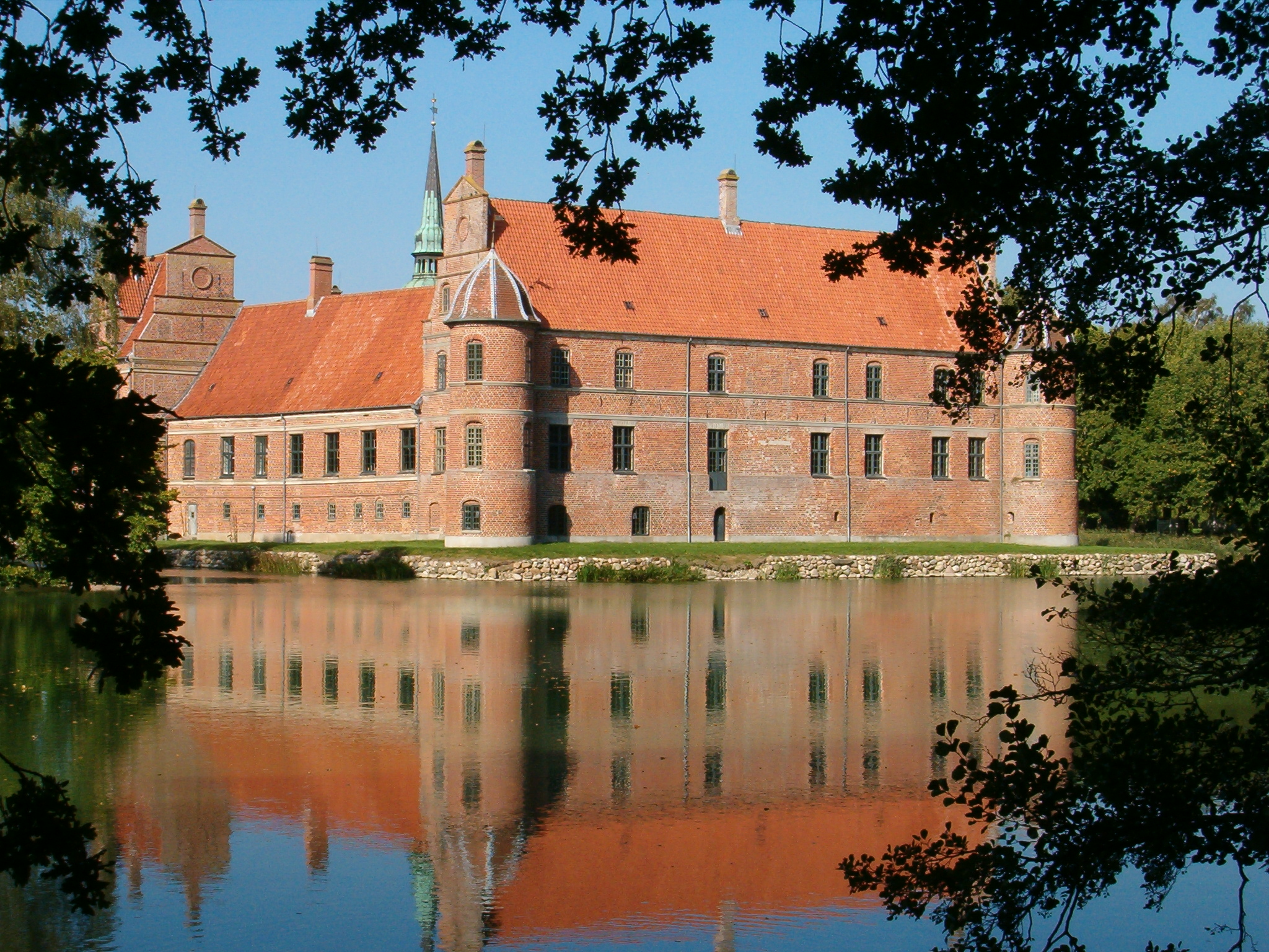 Rosenholm Castle from south